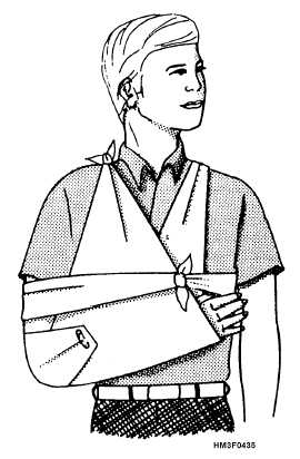 Diagram showing how to apply a splint to the forearm.